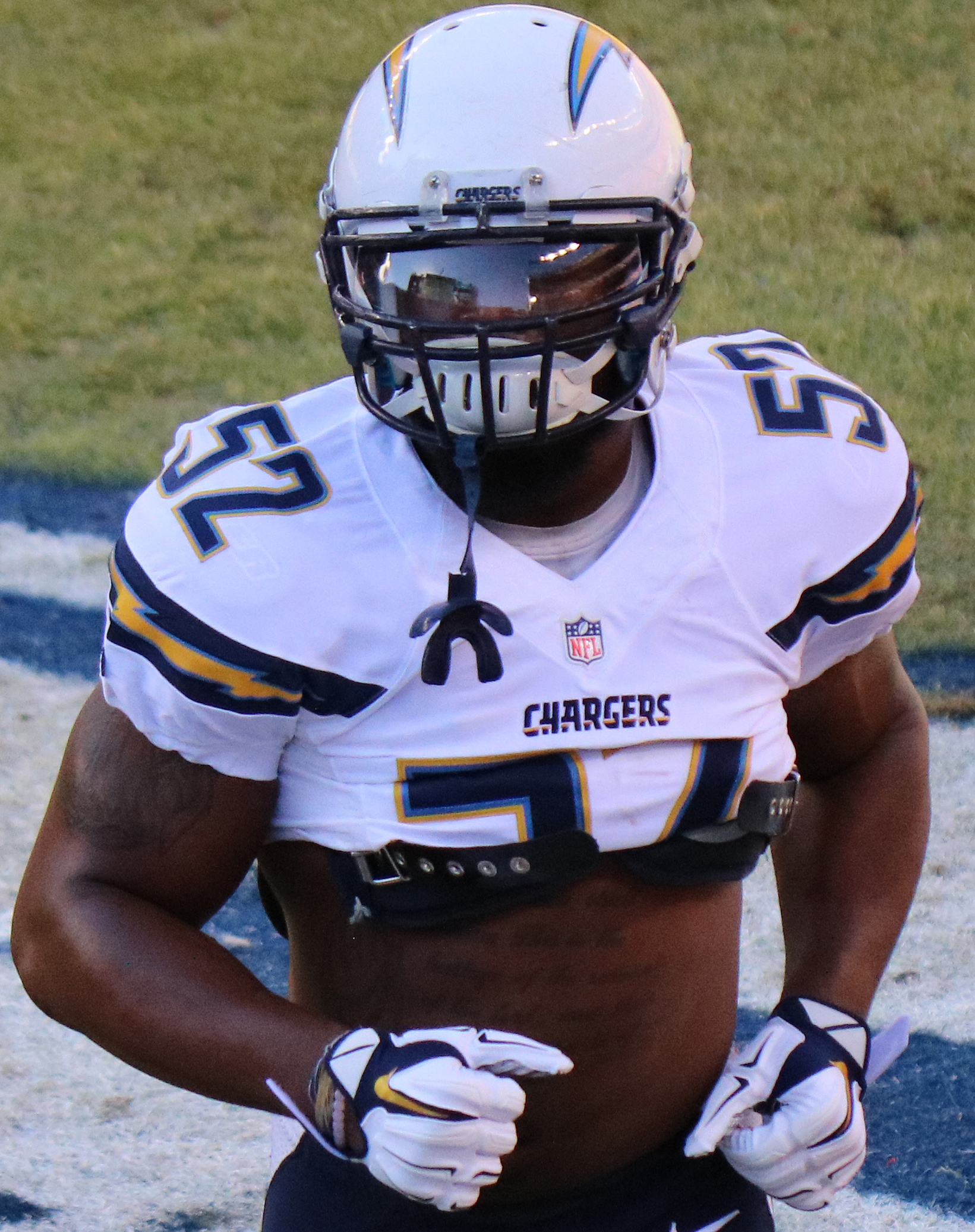 Denzel Perryman, a player on the National Football League.